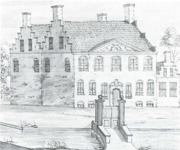 Sickema State at Herbayum, Frisia, the Netherlands